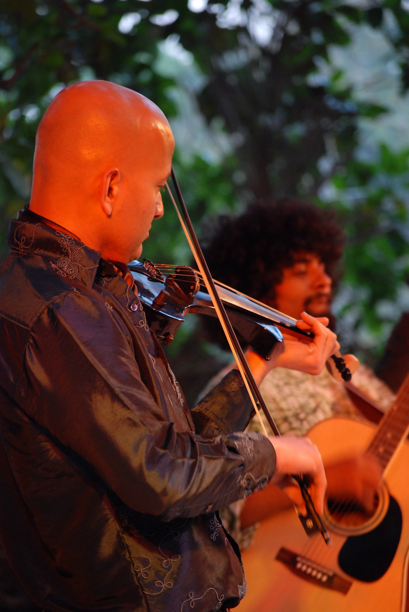 Sanjeev Nayaka and Vasu Dixit of Swarathma at Fireflies Festival 2008